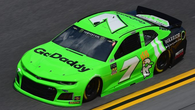 Veiculo promocional da GoDaddy para a Nascar